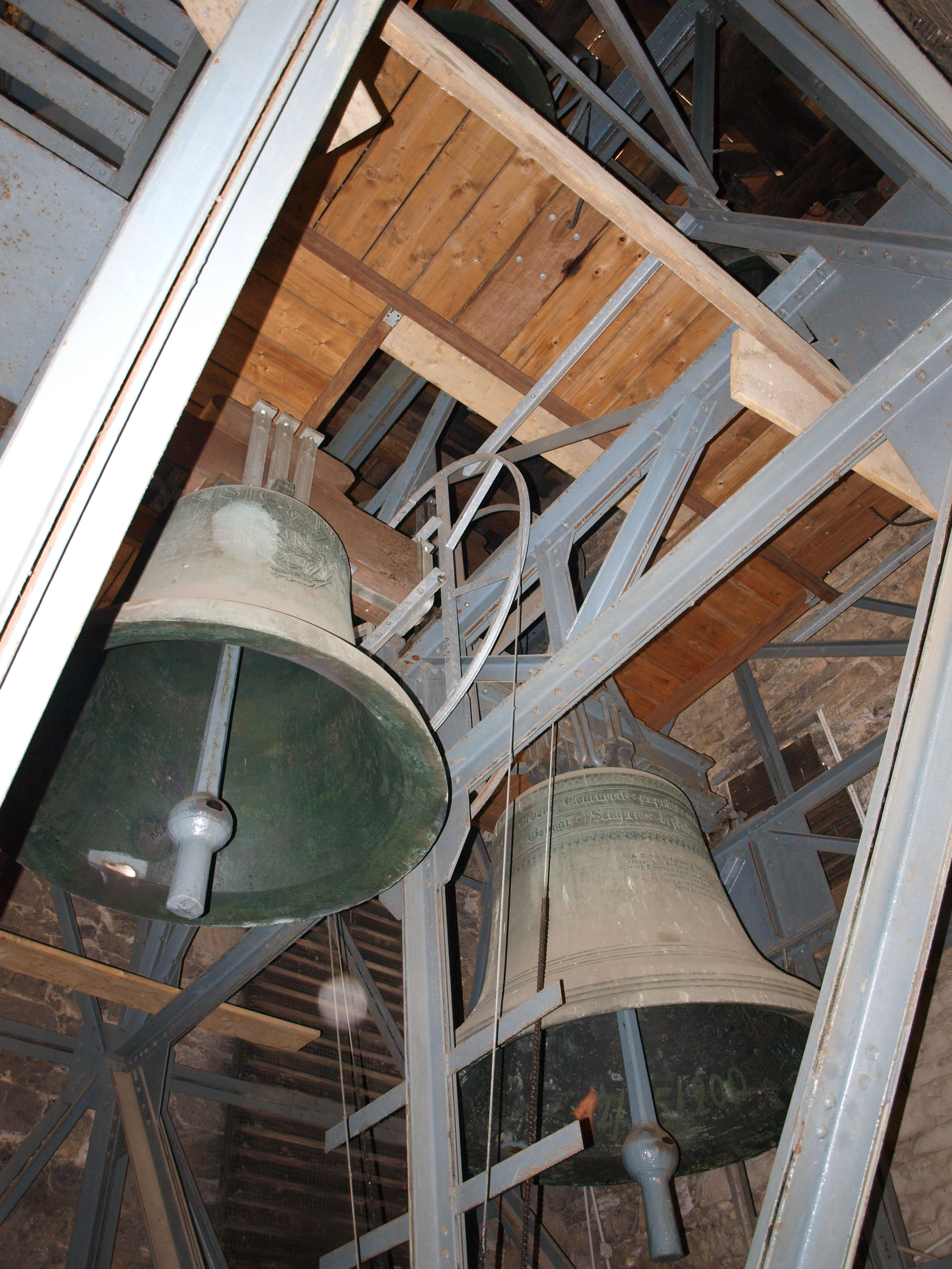 Bellfry of Limburg Cathedral